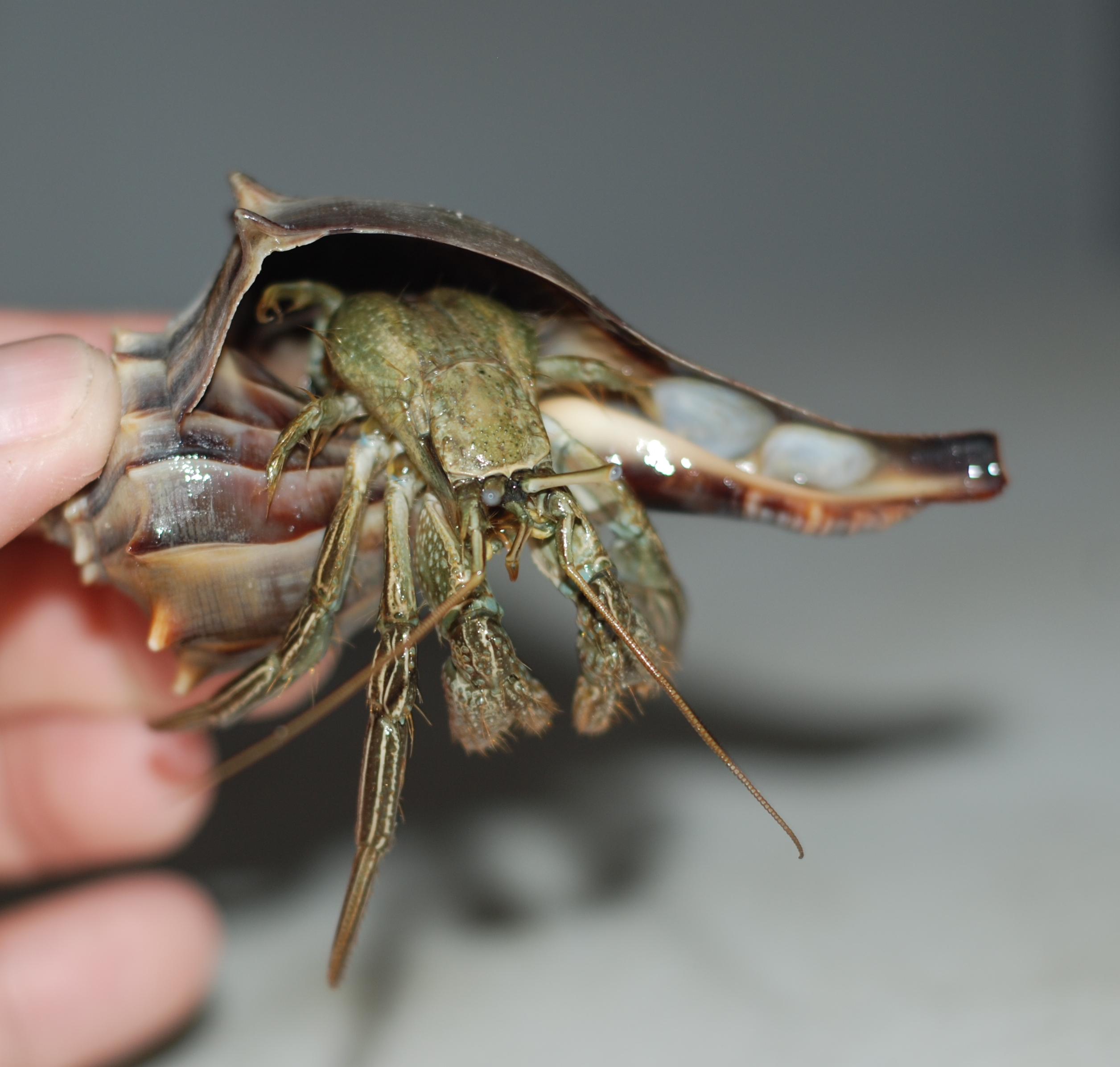 Animals of Core Banks, North Carolina: Hermit Crab, possibly flat-clawed hermit crab Pagurus pollicaris in a shell of Knobbed whelk (Busycon carica)